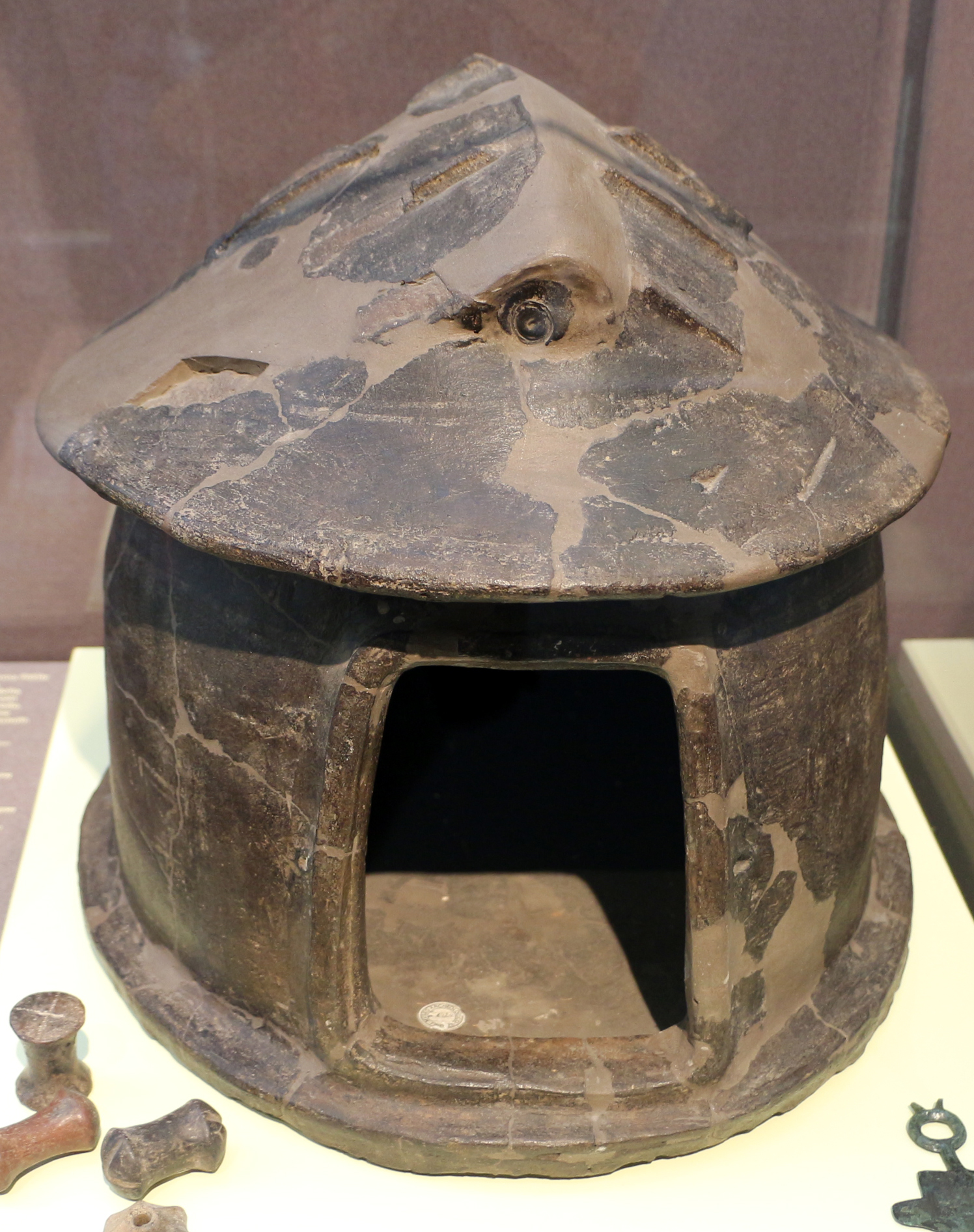 Museo archeologico nazionale (Florence)